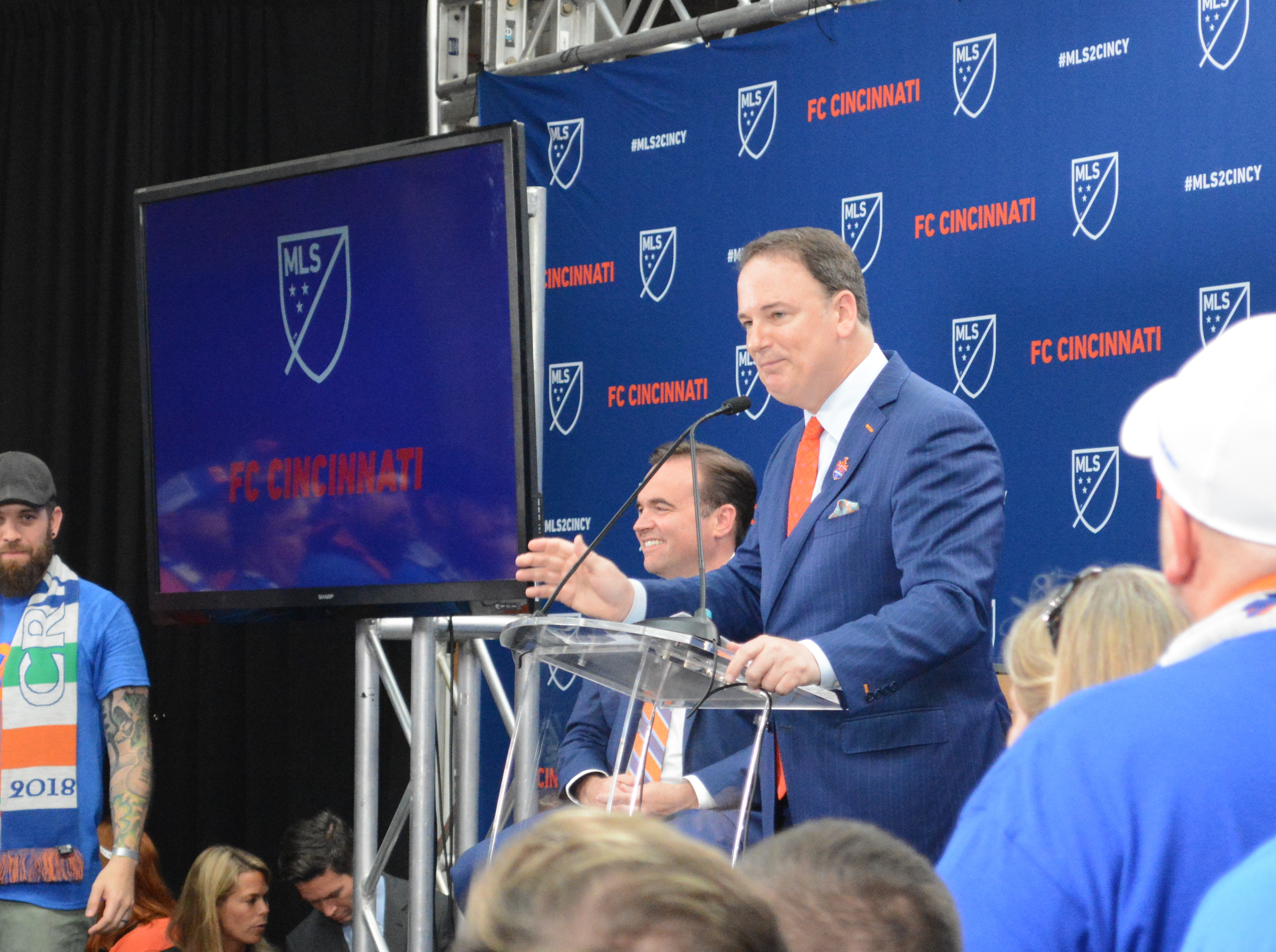 This photo was taken at an FC Cincinnati (FCC) event at Rhinegeist Brewery in Over-the-Rhine, Cincinnati, Ohio, USA on May 29, 2018. At the event, Major League Soccer commissioner Don Garber officially awarded an MLS franchise to FCC. Other speakers at the event included FCC general manager Jeff Berding, FCC owner and CEO Carl Lindner III, Cincinnati mayor John Cranley, and ESPN soccer commentators Adrian Healey and Taylor Twellman. The event was simultaneously livestreamed to a public party at Fountain Square in downtown Cincinnati.